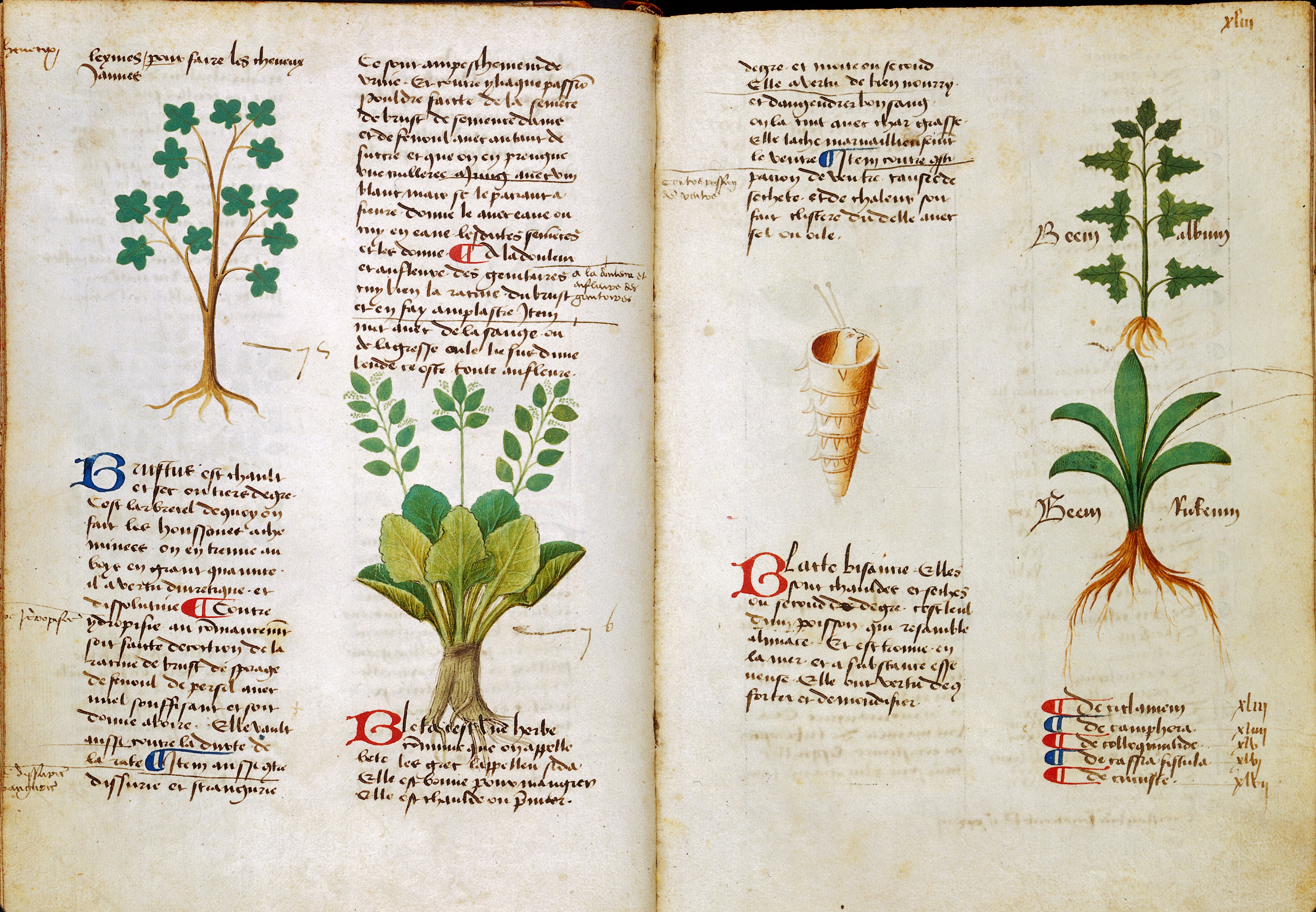 Western Manuscript 626 Platearius, Circa instans seu de medicamentis simplicibus ...; circa 1480 to 1500. Folios xlii verso and xliii recto. Archives & Manuscripts Keywords: wms 626; matthaeus platearius